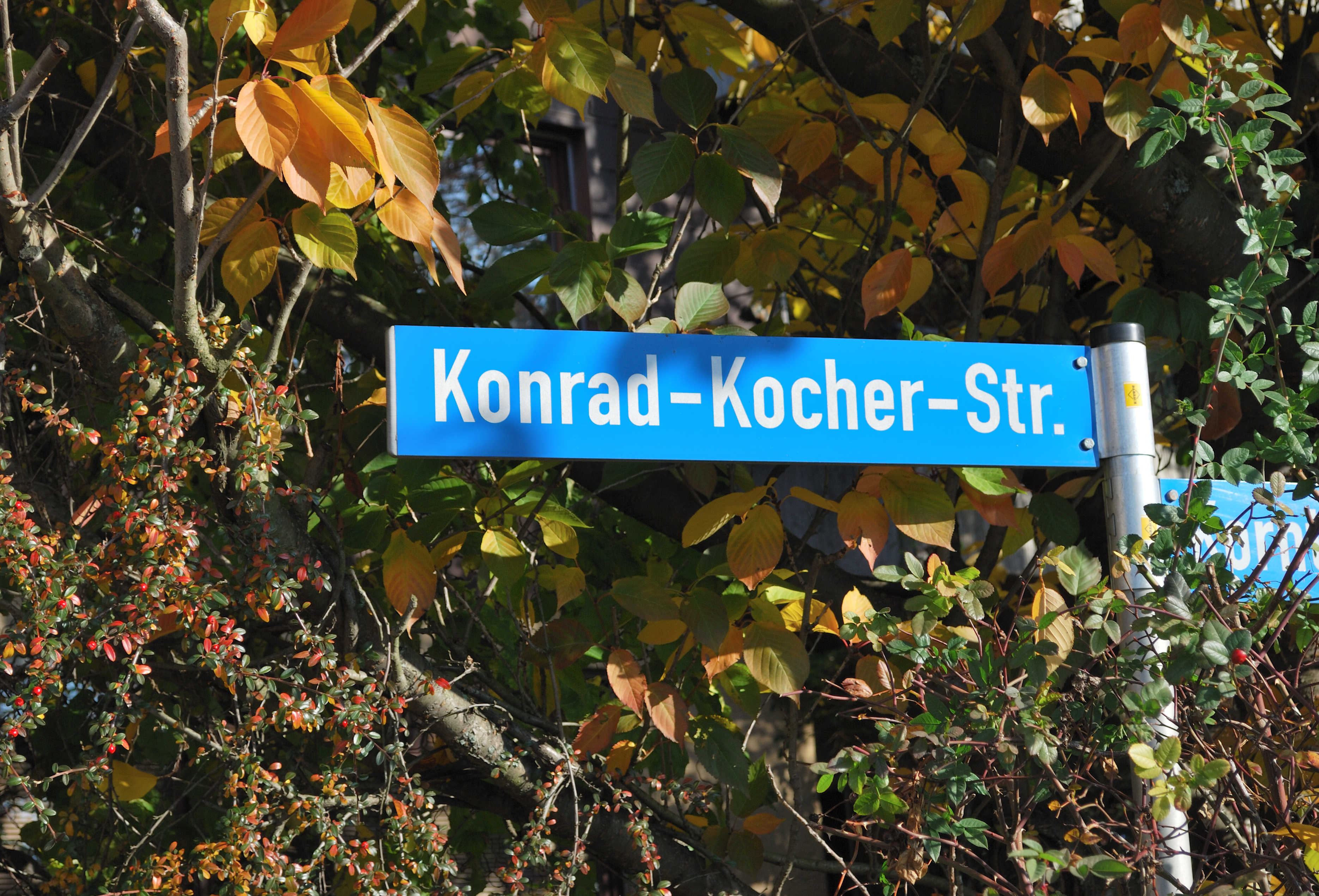 Konrad-Kocher street in Ditzingen, (Baden-Württemberg, Germany).